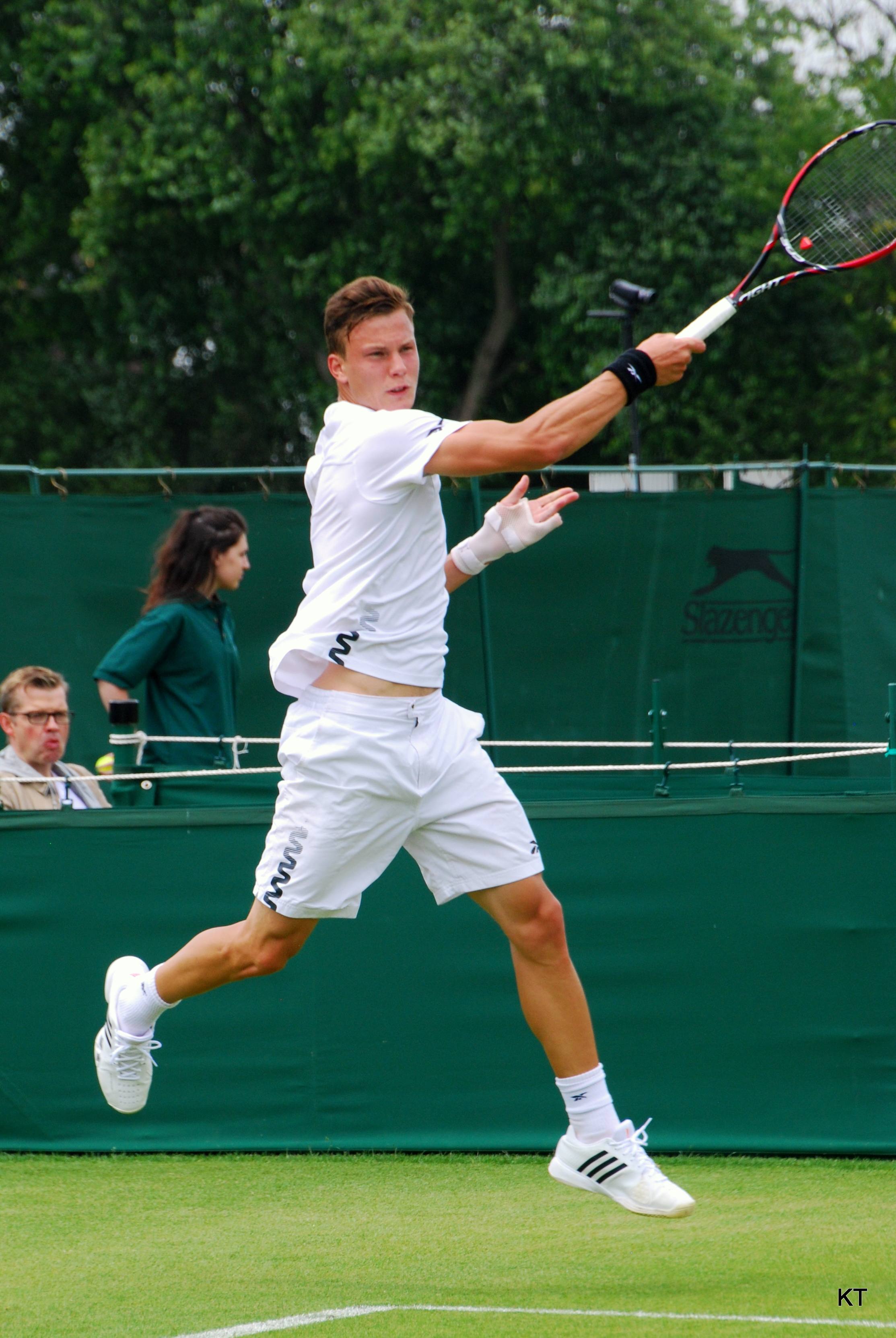 2010 Wimbledon junior champion Marton Fucsovics during his first round match with Danai Udomchoke. Udomchoke won 6-1, 5-7 12-10. Day 1 of Wimbledon qualifying 2013.